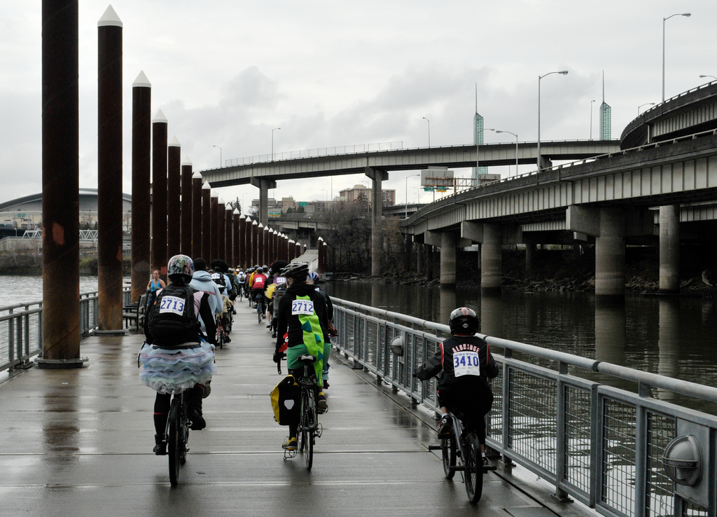 Worst Day of the Year Ride in February, 2010 in Portland, Oregon. Taken on the Eastbank Esplanade.